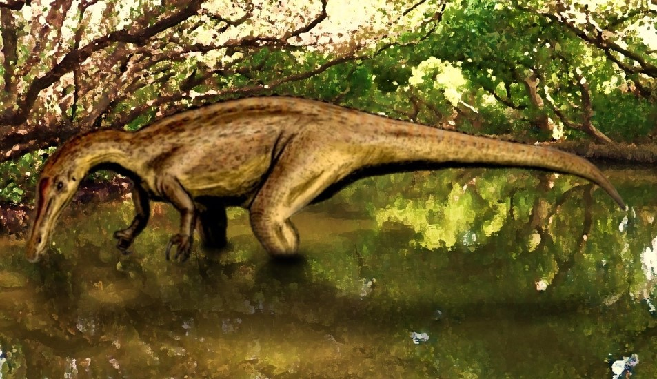 Ecological life restoration of Suchomimus tenerensis, a spinosaurid from the Early Cretaceous of Niger. The animal is a possible junior synonym of Cristatusaurus lapparenti, which may have looked similar to Suchomimus.